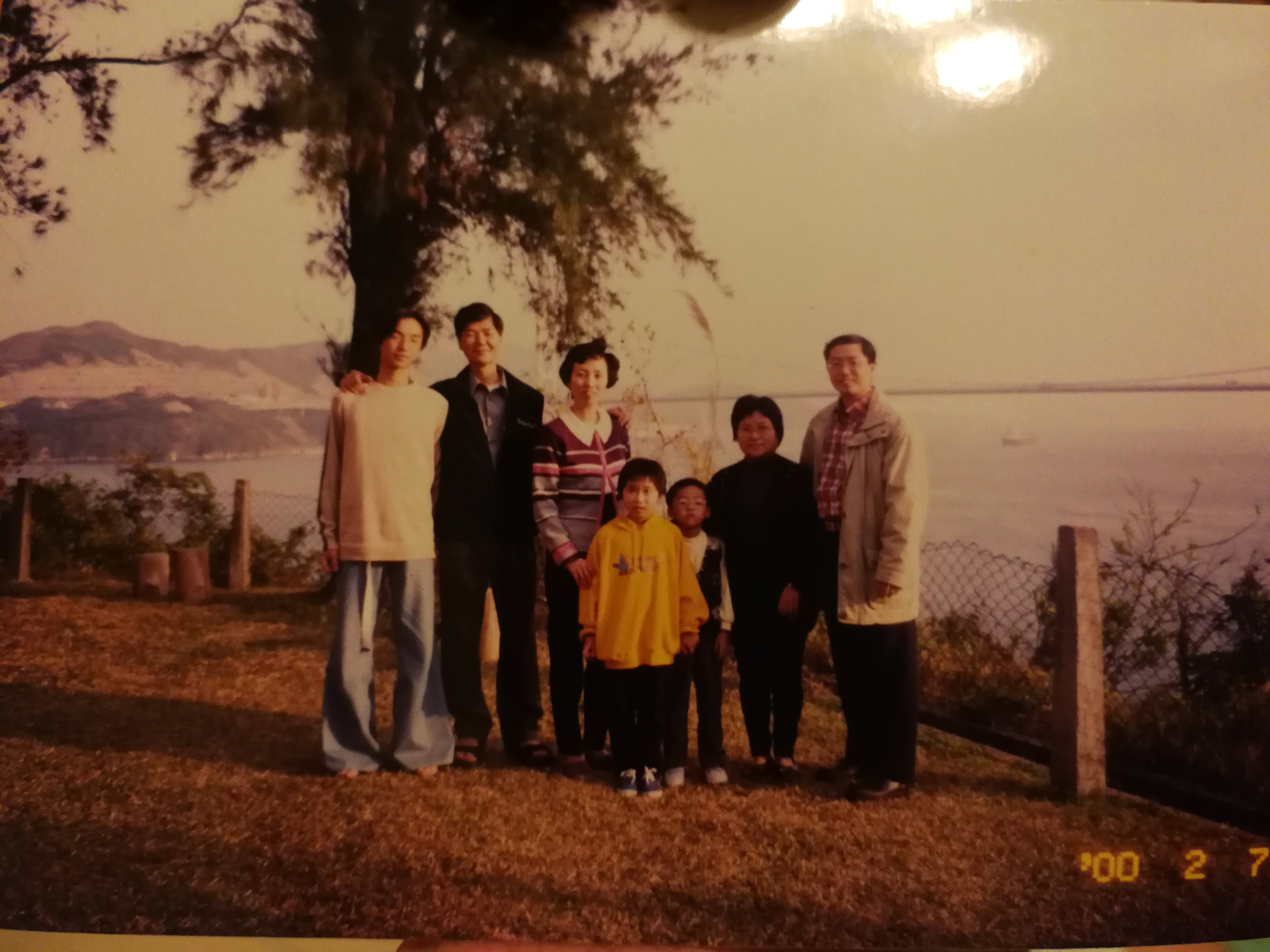 James Ling (2nd Right) with his family in their HK home